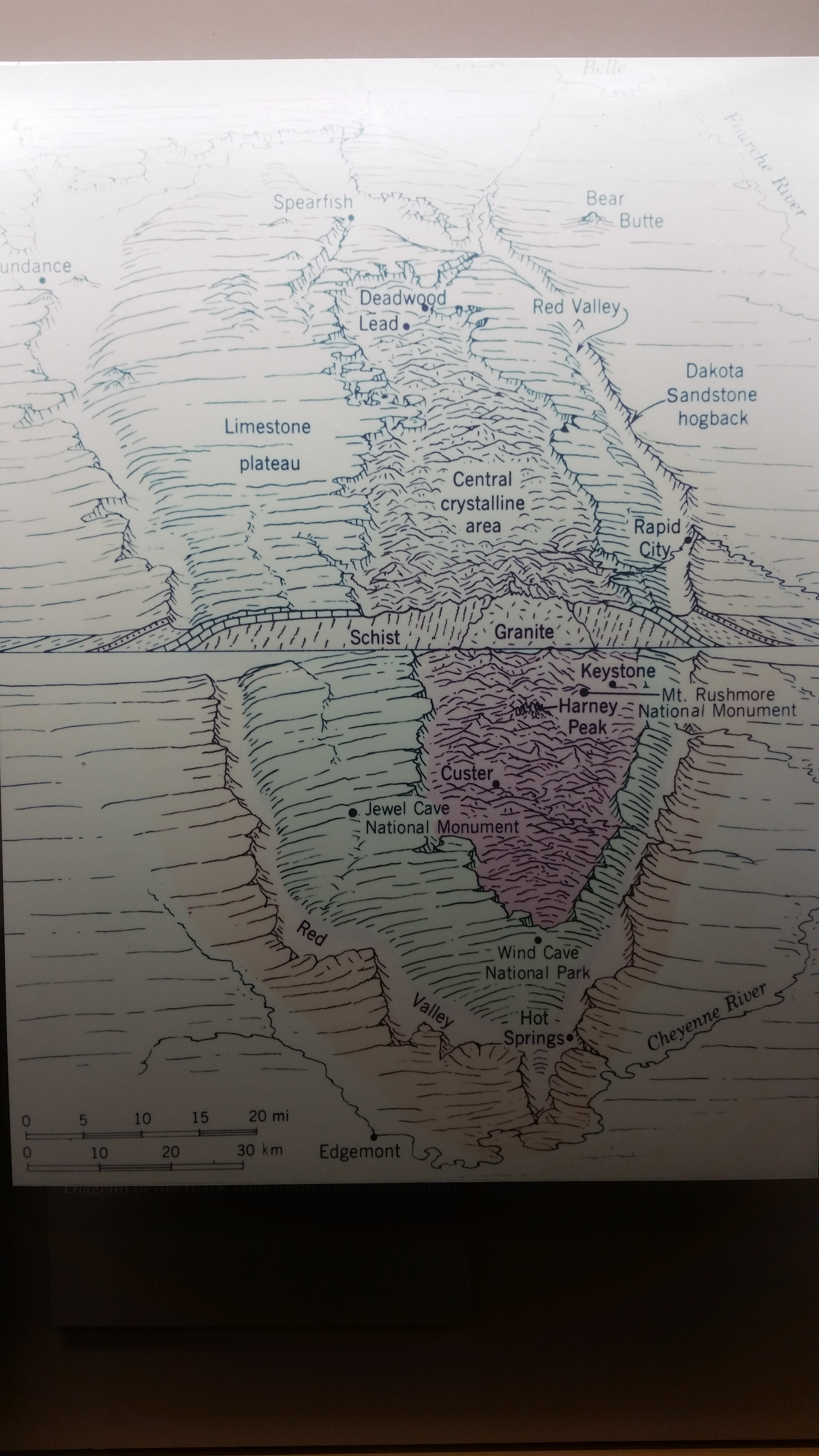 Us National Park marker for the Black Hills geology